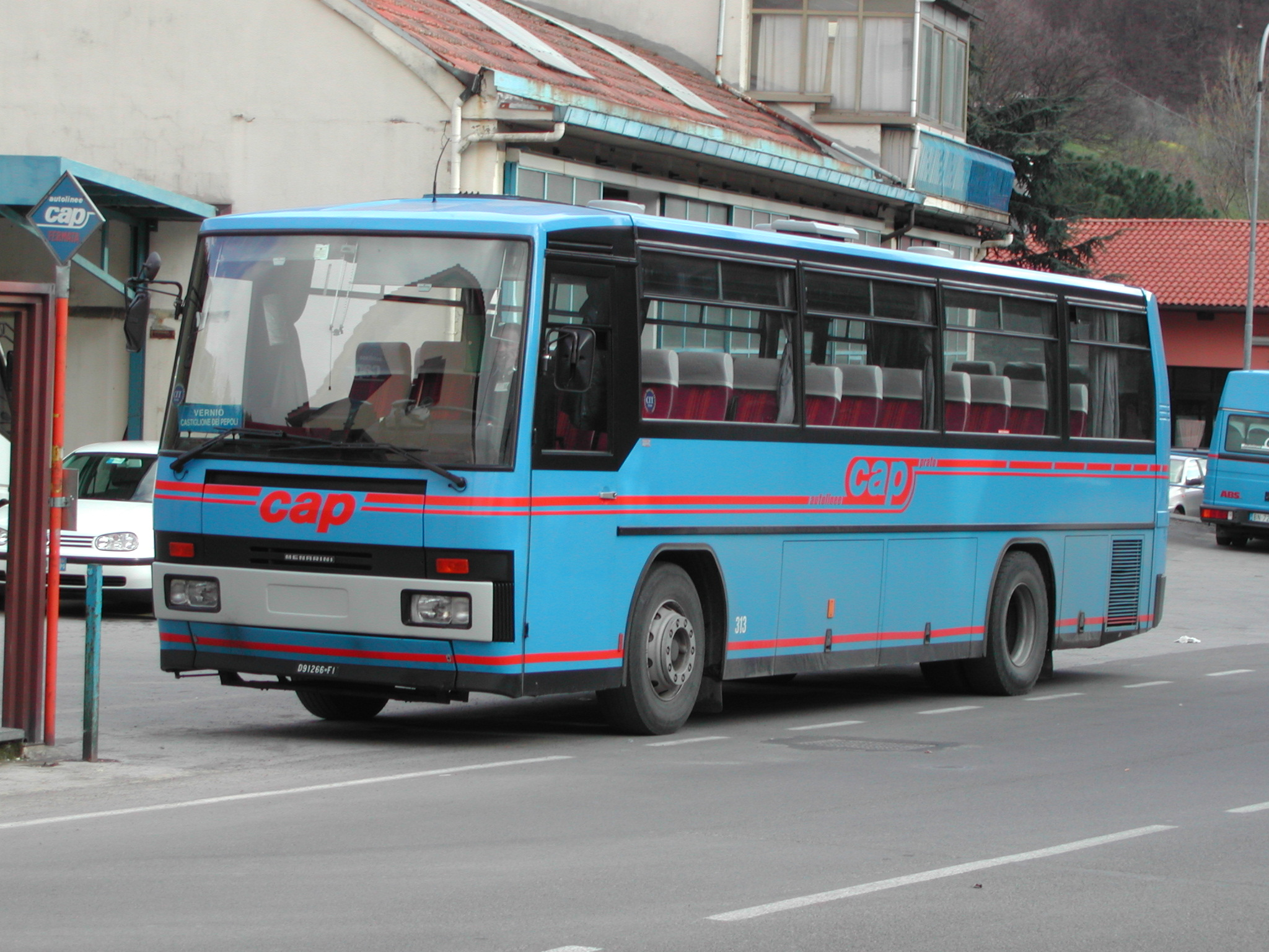 This is a bus produced by BredaMenarinibus (Menarini) until 1995. BredaMenarinibus is the second italian bus producer.